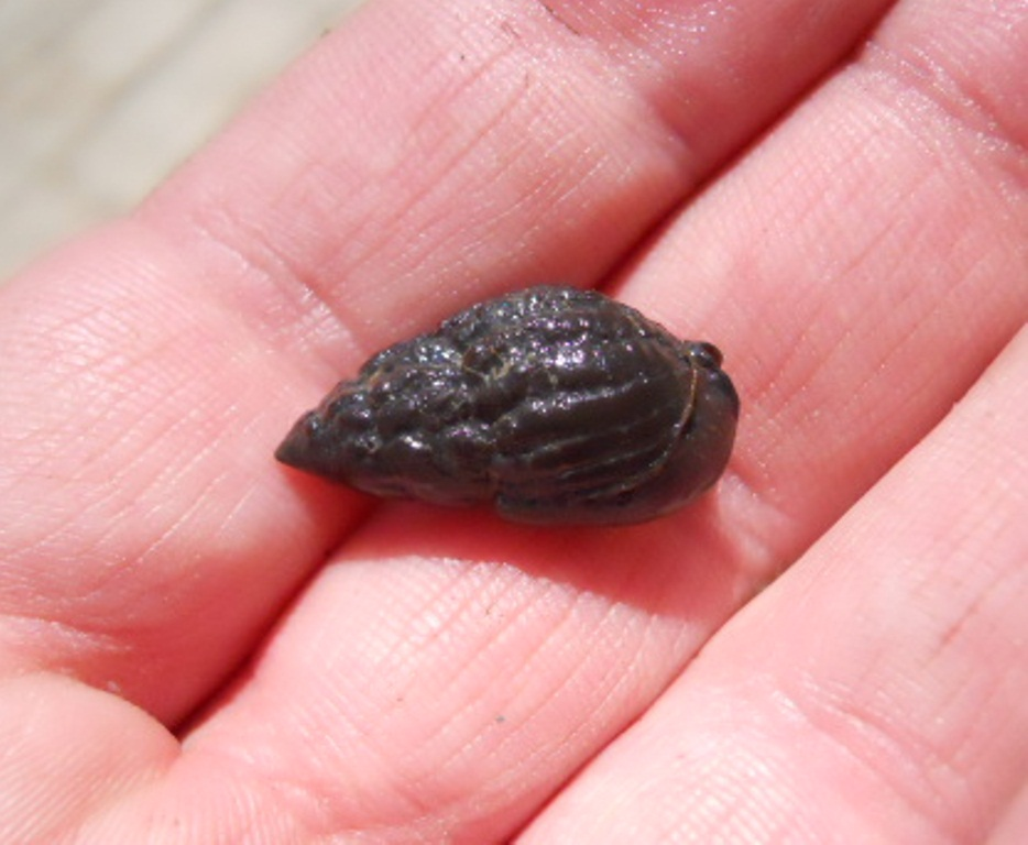 Nassarius nitidus collected in brackish water in a Tuscany estuary (W central Italy).